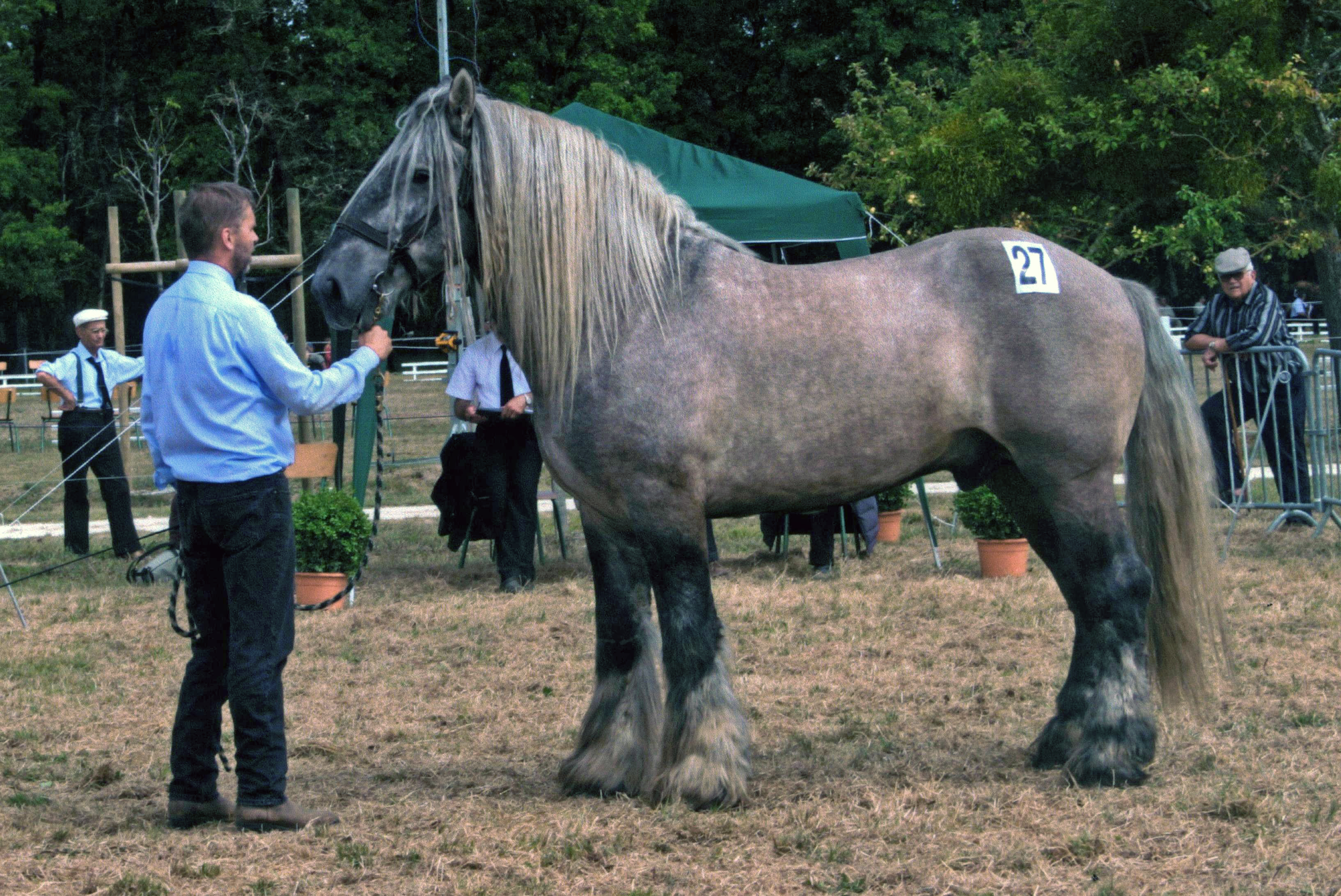 Leonardo 11